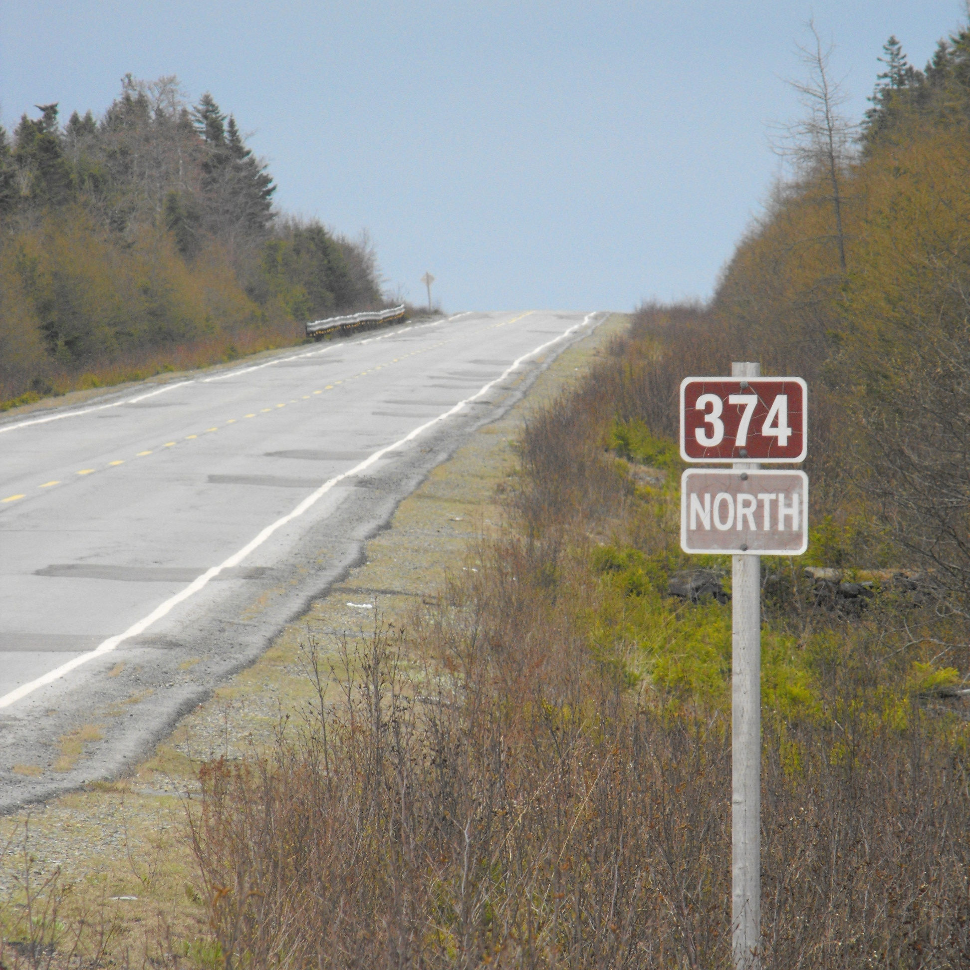 Roadside, Nova Scotia Route 374, Halifax Regional Municipality